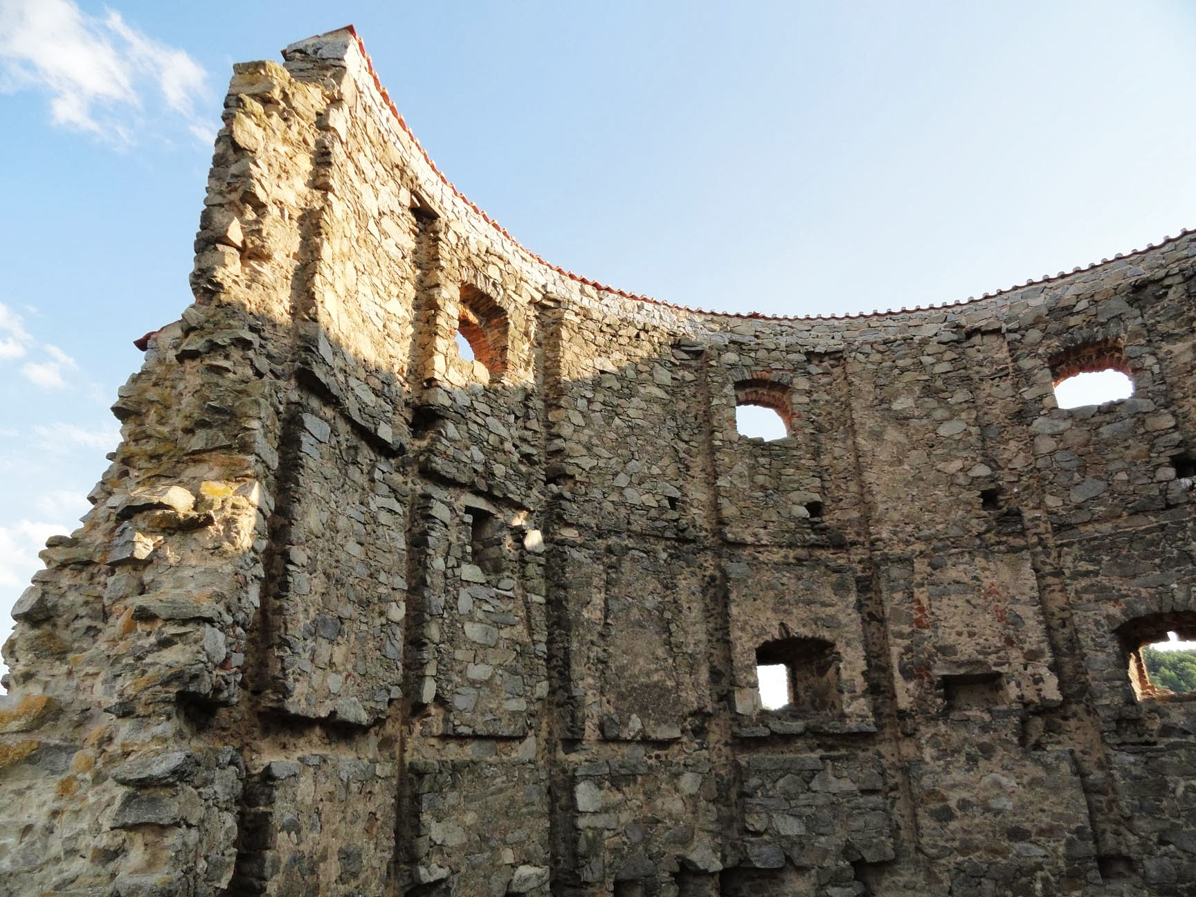 Ruin of windmill near Pricovy, inside 2